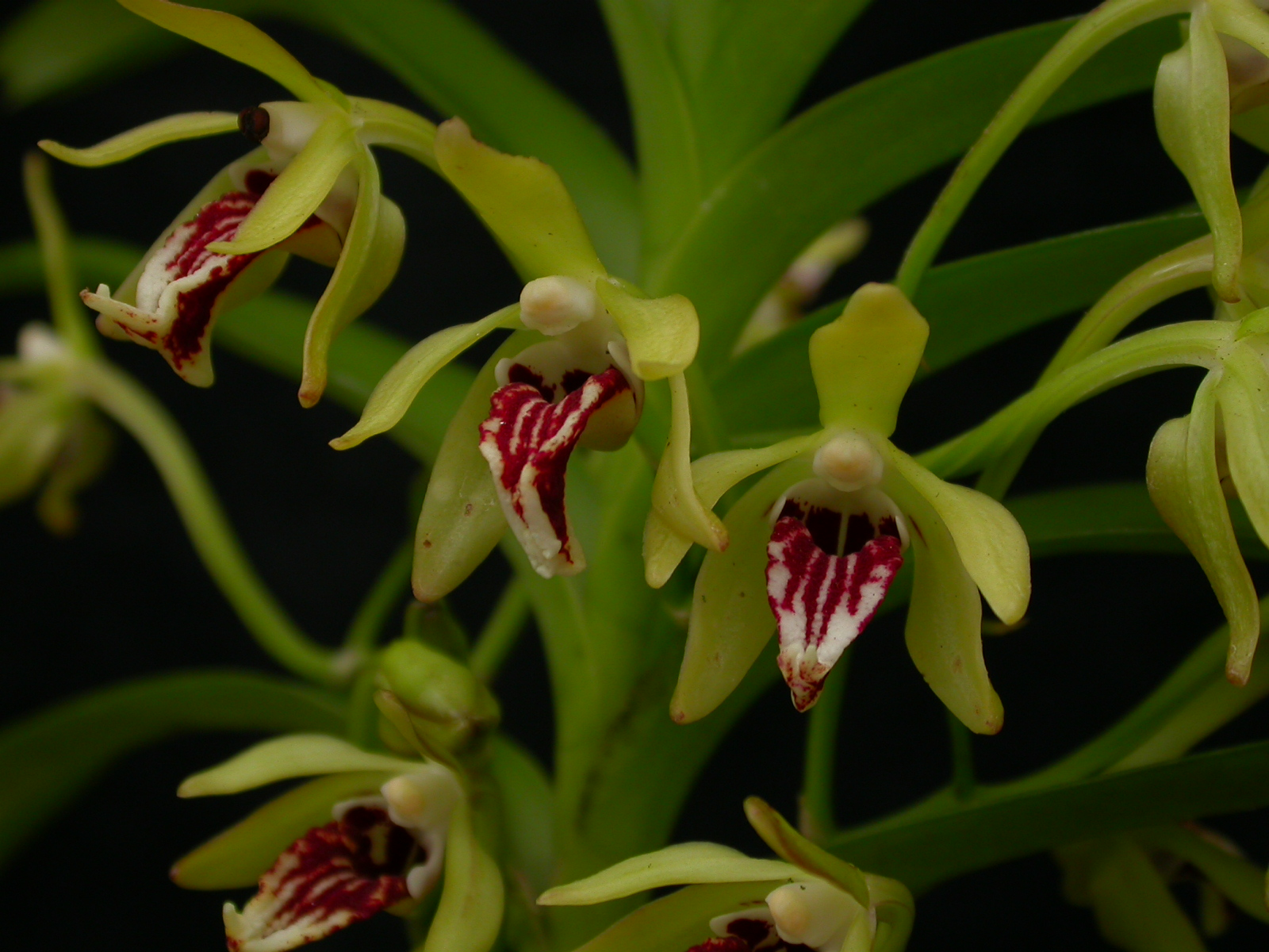 Trudelia cristata (Wall. ex Lindl.) Senghas, Schlechter Orchideen 1(19-20): 1211 (1988), with incorrect basionym ref.